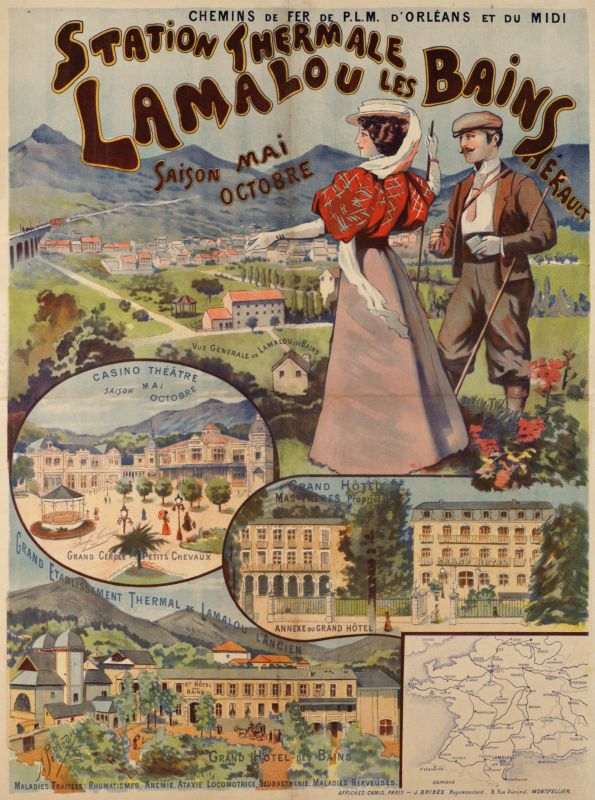 Poster of PLM, PO & CM railway companies: Lamalou-les-Bains